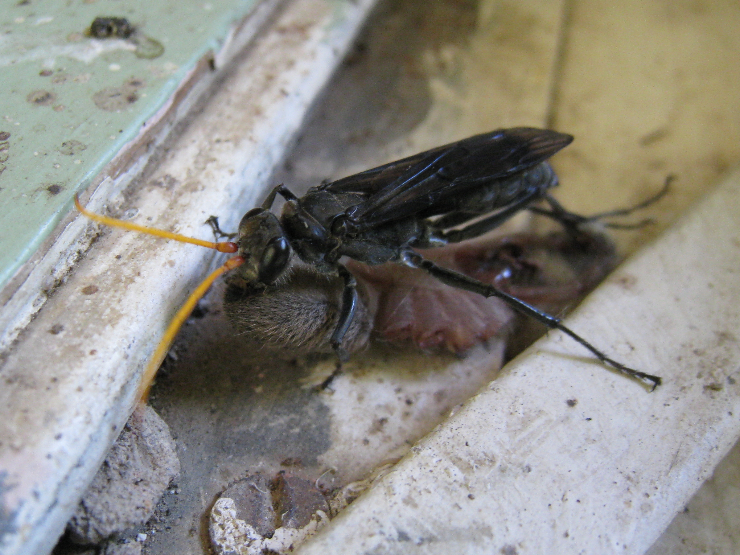 I love these little guys. Hanging around the house, they can be seen dragging a hapless (and in this case legless) spider to a secret stash. Spider wasp, Auplopus. Dargo VIC Australia, December 2010. Spare a little sympathy for the spider. He was just hanging around catching flies, when he was stung by one of the most painful wasp stings known to man or spider. Then he gets his legs ripped off, one at a time, all eight of them. He is then dragged ignominiously, still alive, to some muddy hole, where the wasp lays an egg on top of him. The spider is then sealed in his tomb, and waits, unable to even roll over, until the baby wasp hatches and eats him alive.